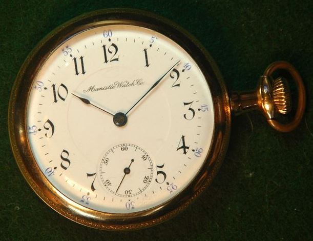 Manistee watch set at 10minutes after 10 o'clock